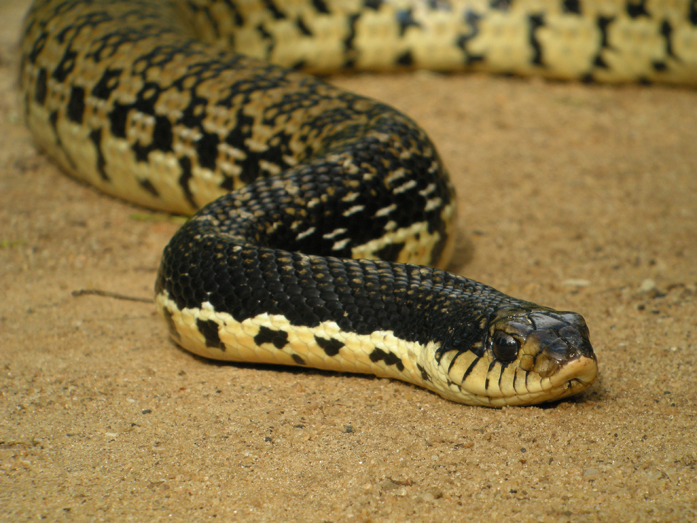 Malagasy Giant Hognose Snake (Leioheterodon madagascariensis) found at Kirindy Mitea National Park, Madagascar.